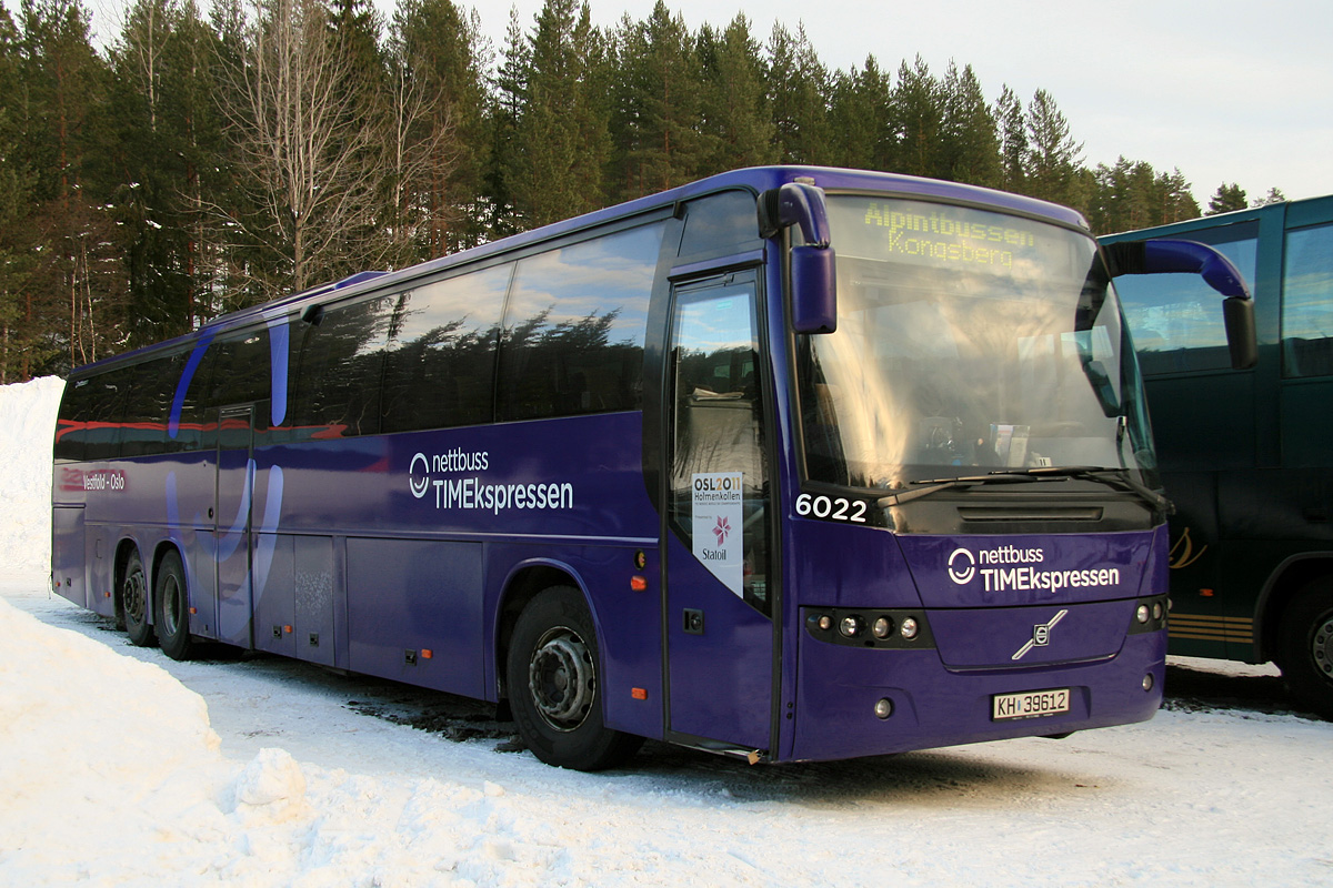 Volvo 9700S 6x2 in the then new livery of TIMEkspressen.